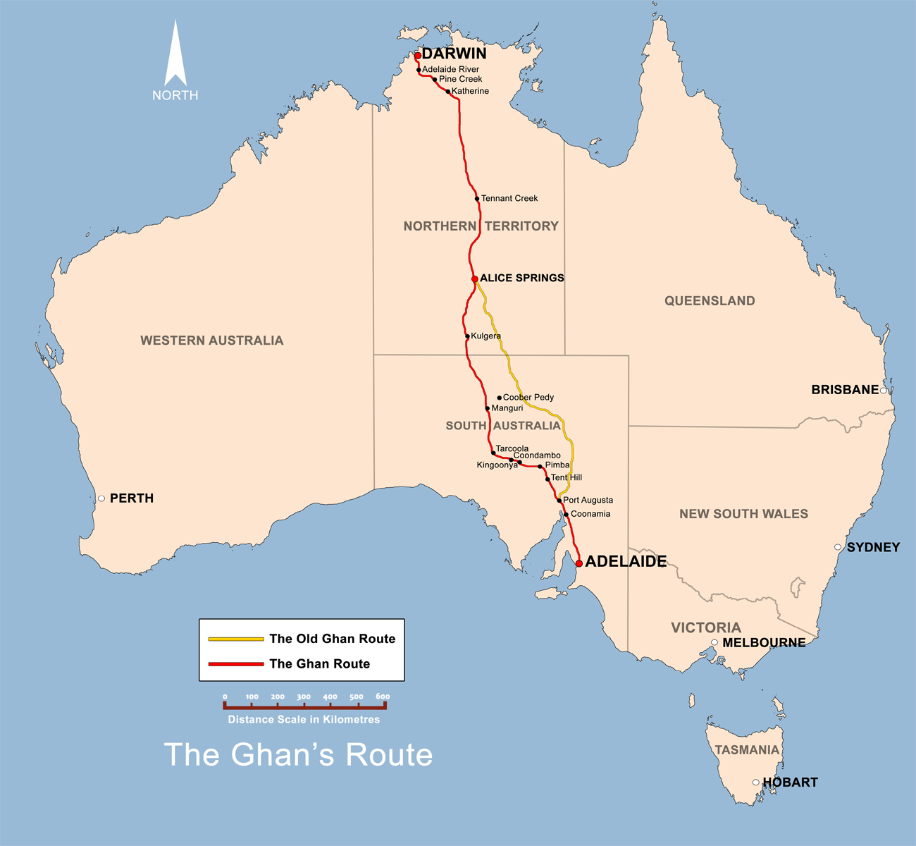 The Ghan route map created by Bidgee based on other Ghan route maps on the internet which are low resolution and are not free to use.